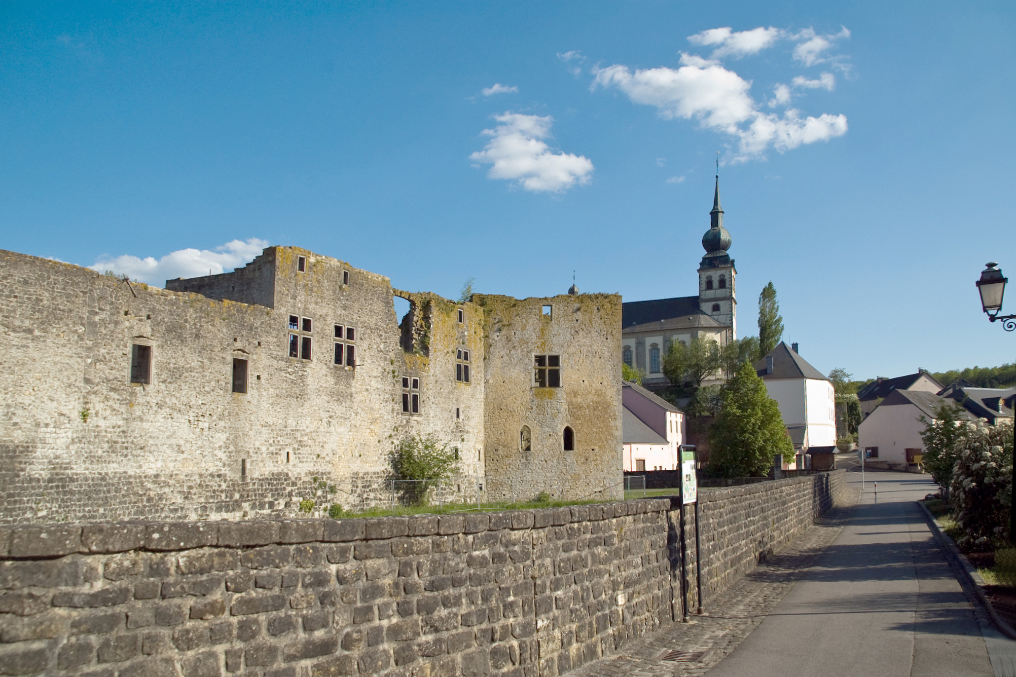 The Gréiveschlass in the shadow of the baroque church in the middle Deanery in Koerich